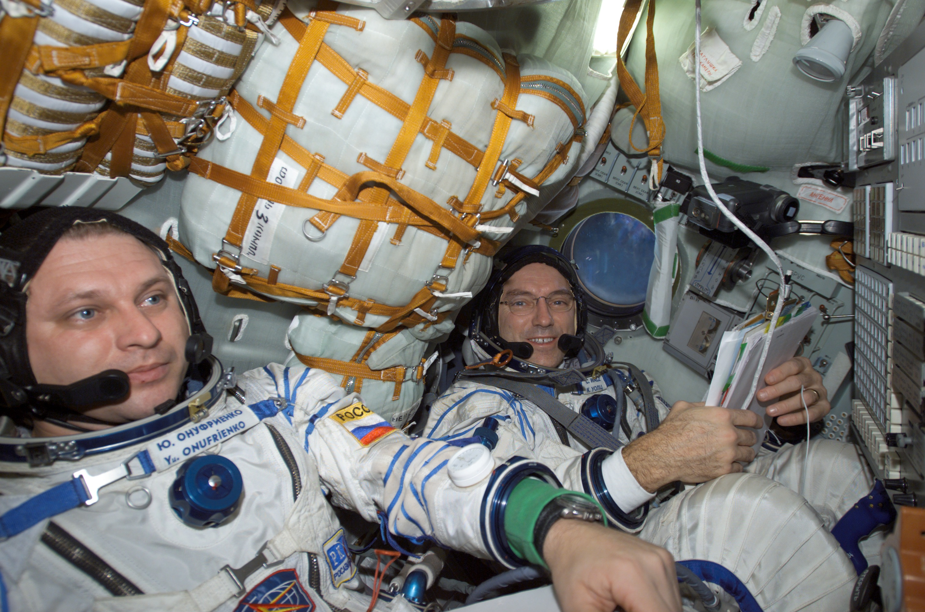 Cosmonaut Yury I. Onufrienko (left) and astronaut Carl E. Walz, Expedition Four mission commander and flight engineer, respectively, wearing Russian Sokol suits, are seated in the Soyuz 3 spacecraft that is docked to the International Space Station (ISS). The Expedition Four crew undocked the Soyuz 3 capsule from the nadir docking port of the Zarya module of the ISS at 4:16 a.m. (CDT) and flew a short distance down the station for a redocking to the Pirs docking compartment at 4:37 a.m. (CDT) over Central Asia. The move was in preparation for the arrival of the new Soyuz 4 capsule on April 27, 2002, and a three-man “taxi” crew, Commander Yuri Gidzenko, who was a member of the first resident crew of the ISS; Flight Engineer Roberto Vittori of the European Space Agency (ESA); and South African space flight participant Mark Shuttleworth.